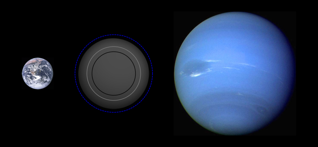 Comparison of several possible sizes for the exoplanet Gliese 581 f with the Solar System planets Earth and Neptune, using approximate models of planetary radius as a function of mass[1] for several possible compositions, based on mass reported in the Extrasolar Planets Encyclopaedia[2] as of 2010-10-03. Models include: water world with a rocky core, composed of 75% H2O, 3% Fe, 22% MgSiO3 hypothetical pure water (ice) planet, the largest size for Gliese 581 f without a significant H/He envelope rocky terrestrial "Earth-like" planet, composed of 67% Fe, 32.5% MgSiO3 hypothetical pure iron planet, Gliese 581 f's theoretical smallest size Gliese 581 f is not likely to be smaller than the iron planet, and will be considerably larger than the water planet if significant H or He is present. For non-transiting planets, all modeled sizes will be underestimates to the extent that the planet's actual mass is larger than the reported minimum mass. ↑ Seager, S.; M. Kuchner, C. A. Hier-Majumder and B. Militzer (2007). "Mass–radius relationships for solid exoplanets". The Astrophysical Journal 669: 1279–1297. Retrieved on 2010-08-27. ↑ Extrasolar Planets Encyclopaedia (2010-09-30). Retrieved on 2010-10-03.